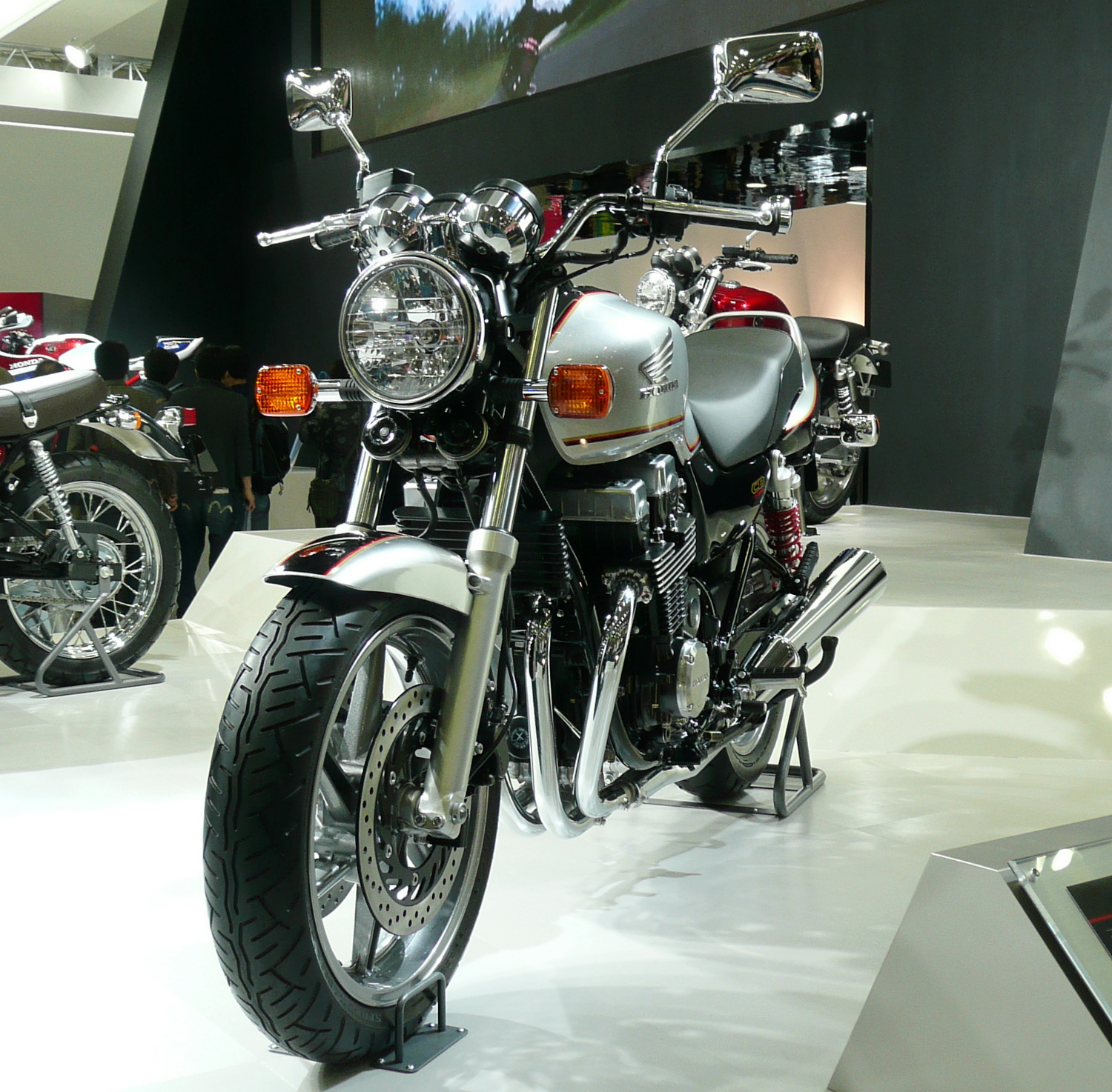 Honda CB750 Special(2007 Tokyo Motor Show)